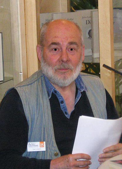 Photo taken at Gothenburg Book Fair 2005 by Lennart Guldbrandsson